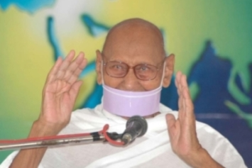 Acharya Mahapragya delivering a discourse